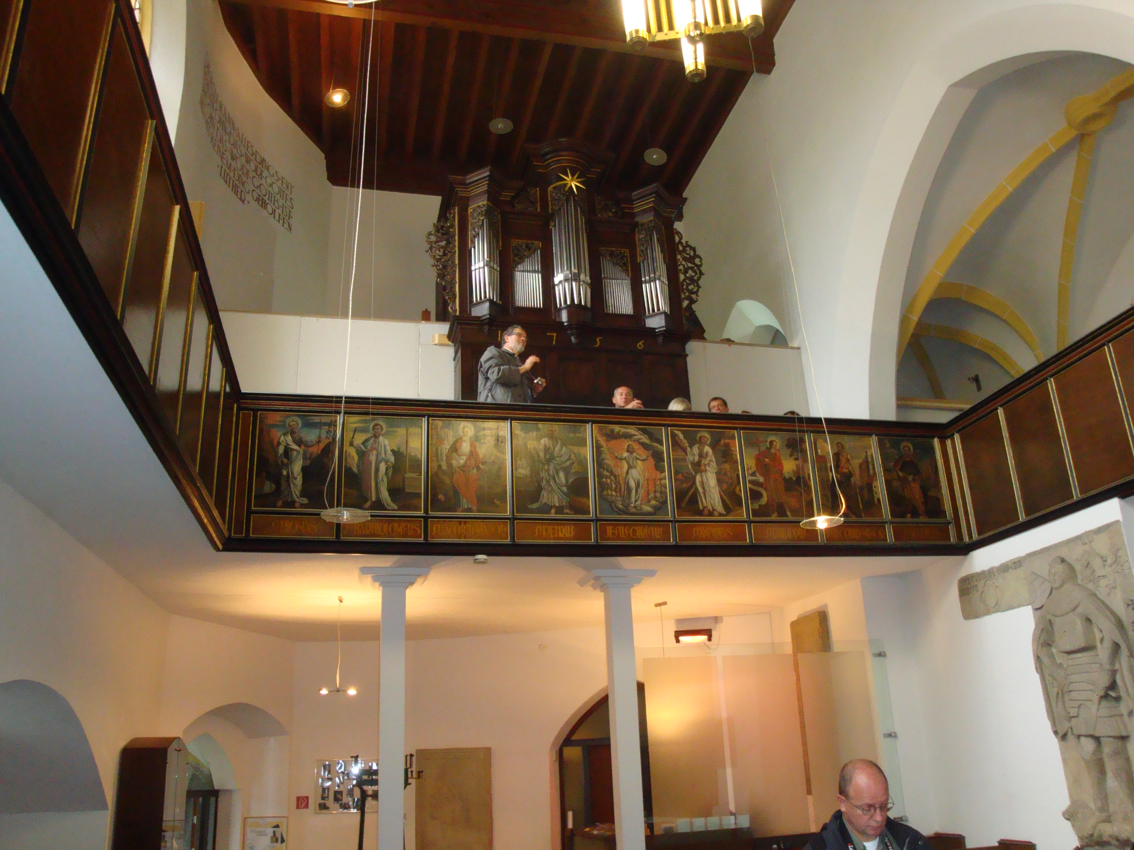 In the rock built church , Idar-Oberstein , Germany